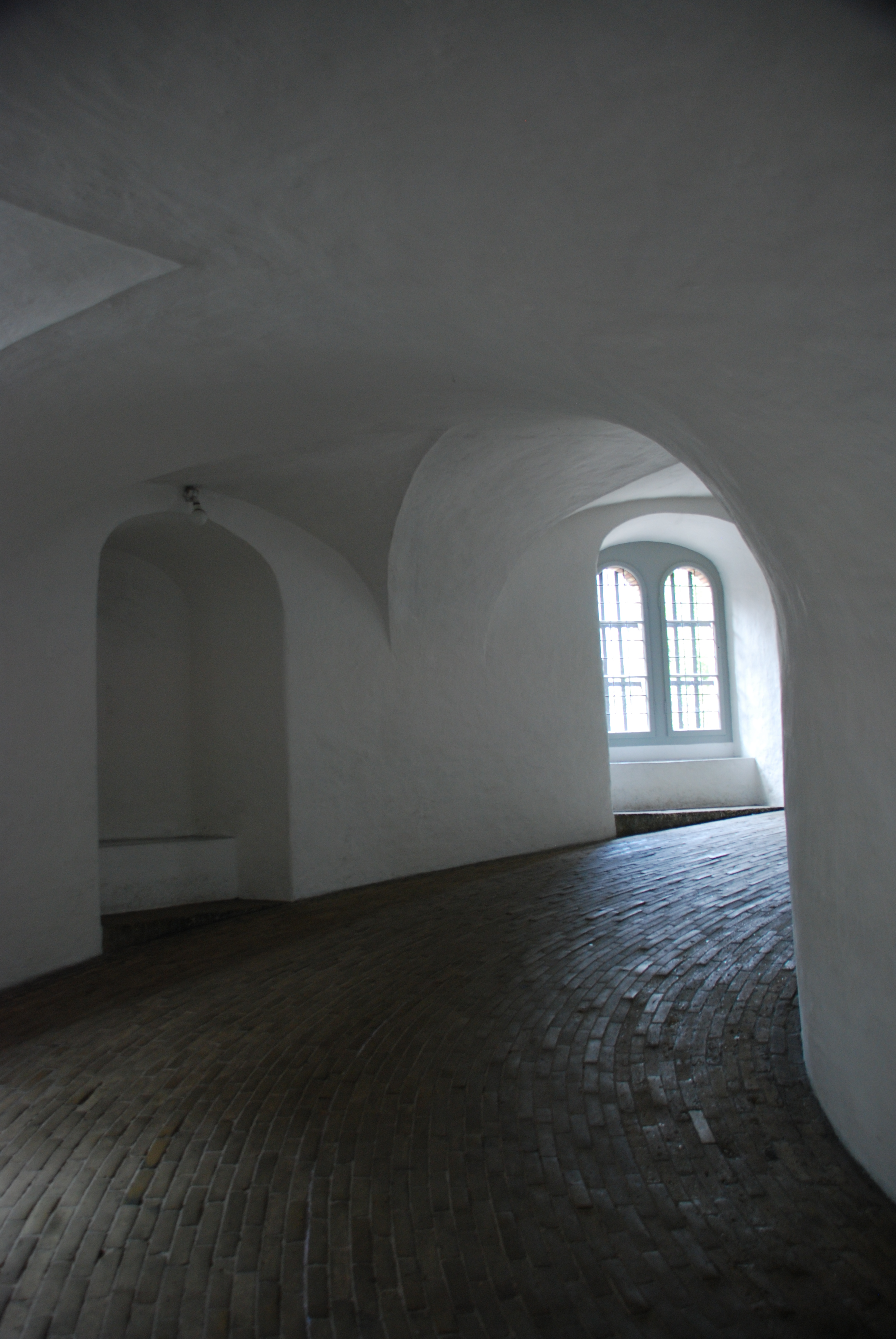 Architectural details from the interior of the Rundetaarn (round tower) in Copenhagen, Denmark. This 17th century tower is part of the Trinitatis complex in Copenhagen, which was built to provide scholars of the time with an astronomical observatory, a student church and a university library.